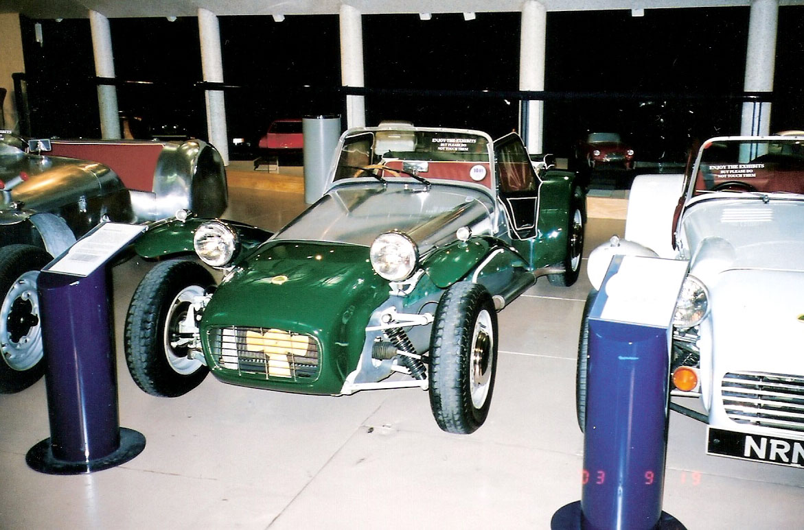 Row of Lotus Sevens of various years. The one of the left is actually a Lotus Six. Taken in 2003 at the Heritage Motor Centre in Gaydon. Unfortunately poor quality due to cheap film camera then transfer to CD.Lotus Sevens